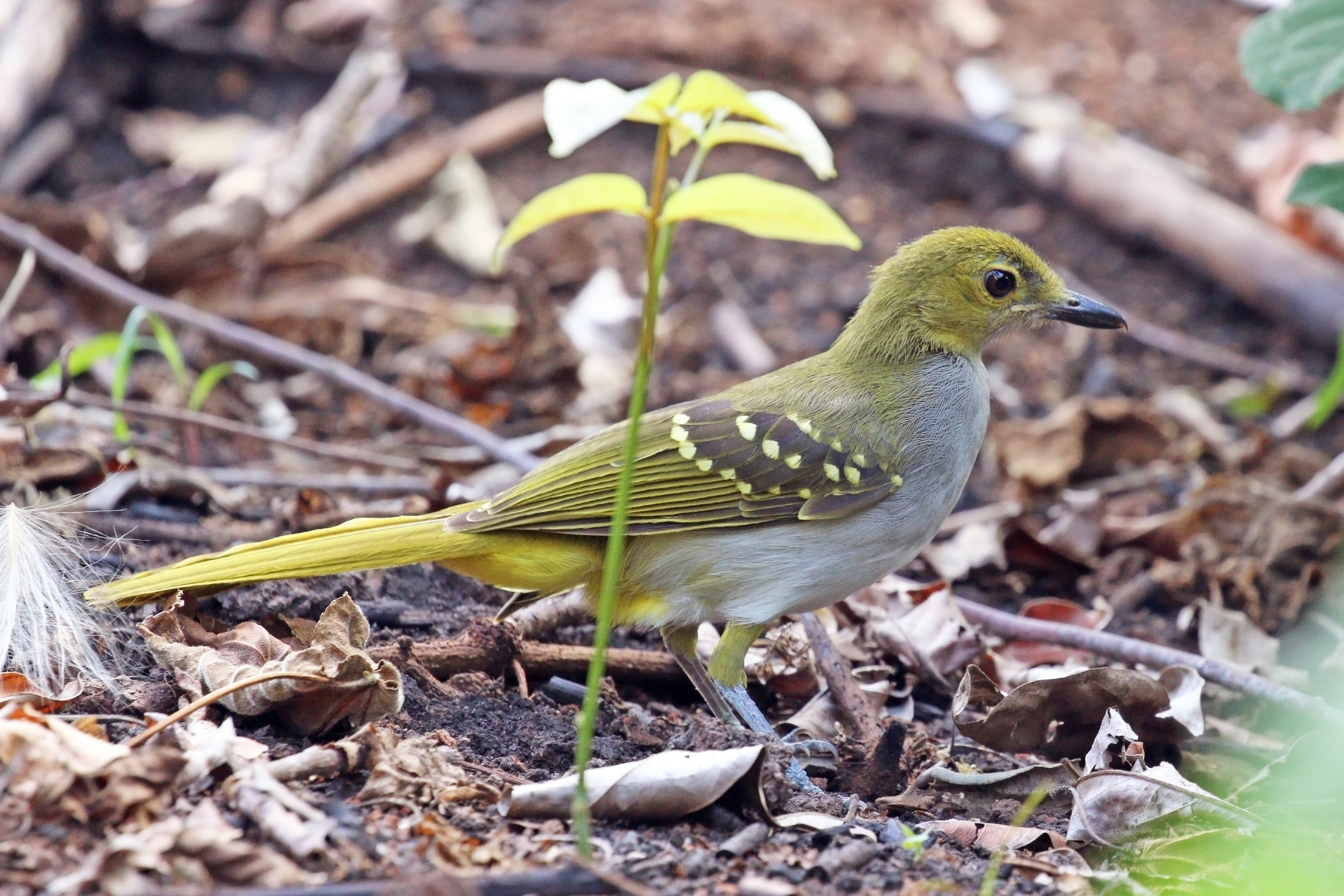 Western nicator (Nicator chloris) juvenile, Bigodi Wetland Sanctuary, Uganda